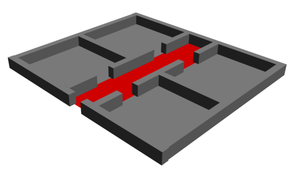 corridor